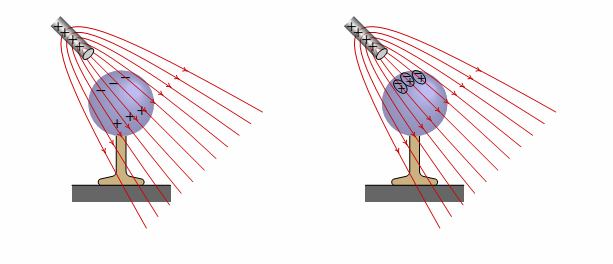 Electrical conductor.